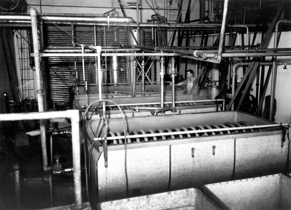 Cream pasteurising and cooling coils at Murgon Butter Factory, 1939